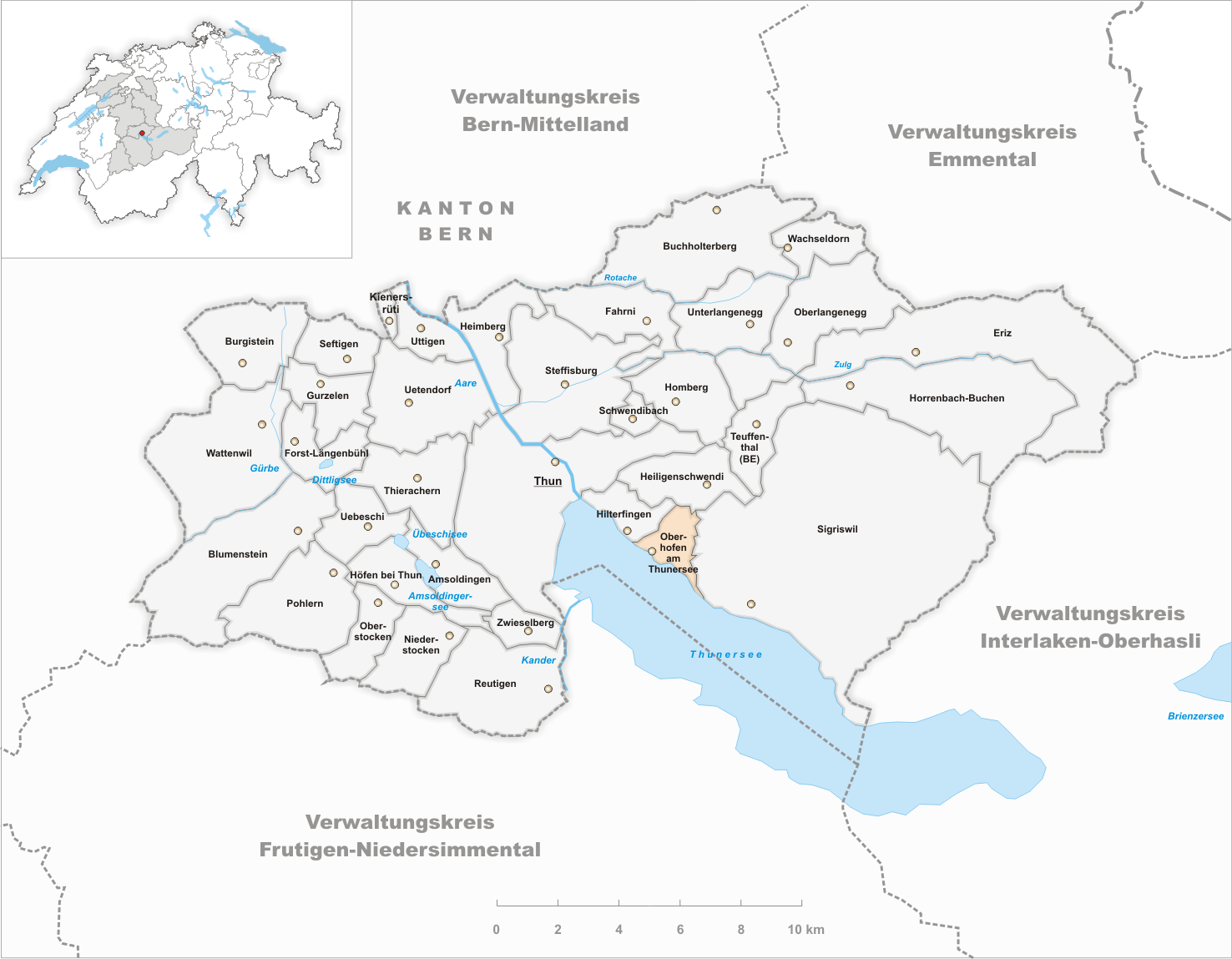 Municipality Oberhofen am Thunersee